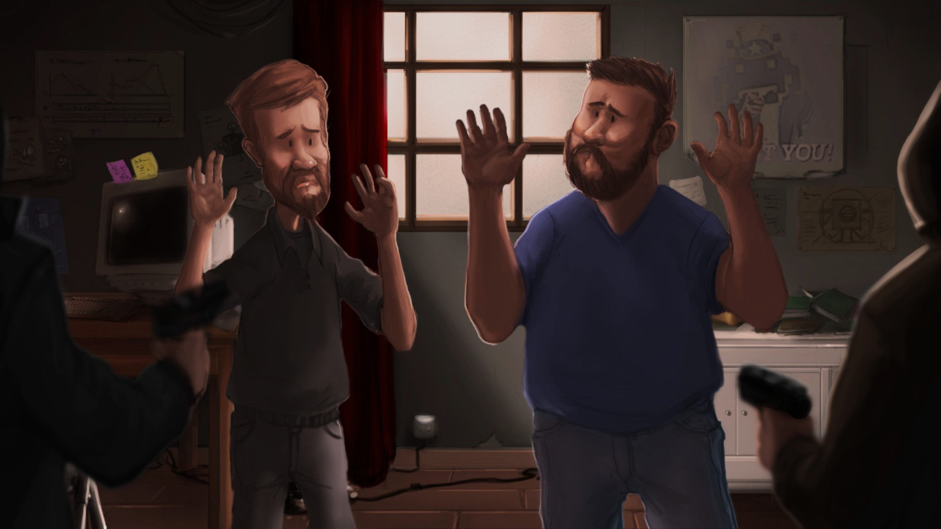 Introductory sequence for Blocks That Matter, a video game.